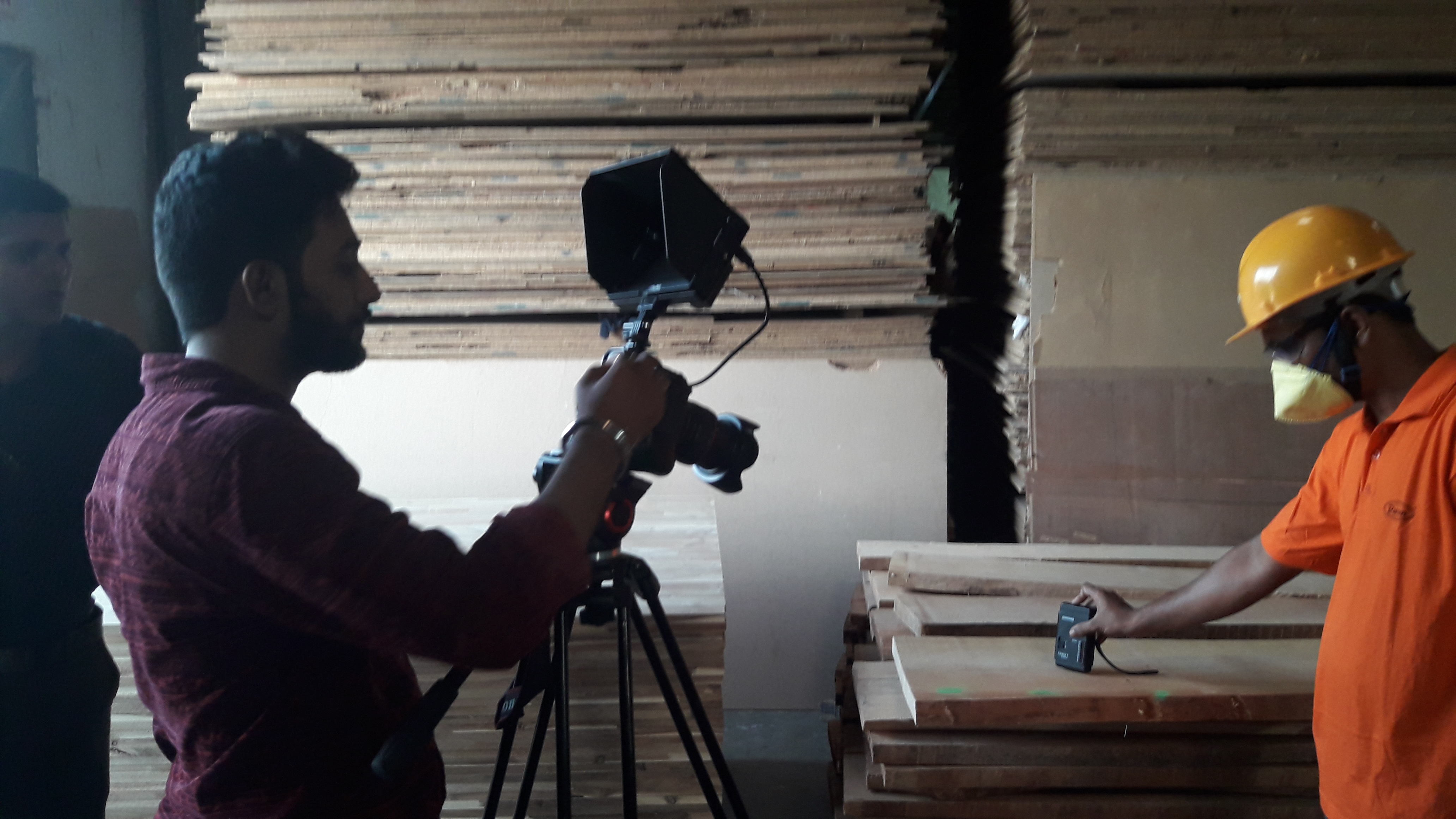 Industrial video shoot with D-SLR Camera; Canon 6D with monitor and 24-105 lens